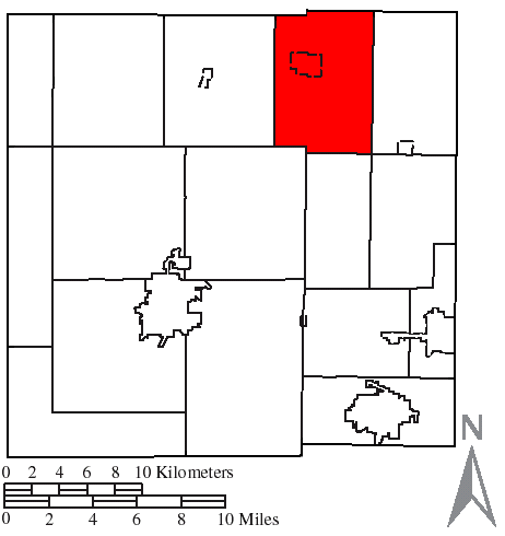 Made by the US Census and modified by myself